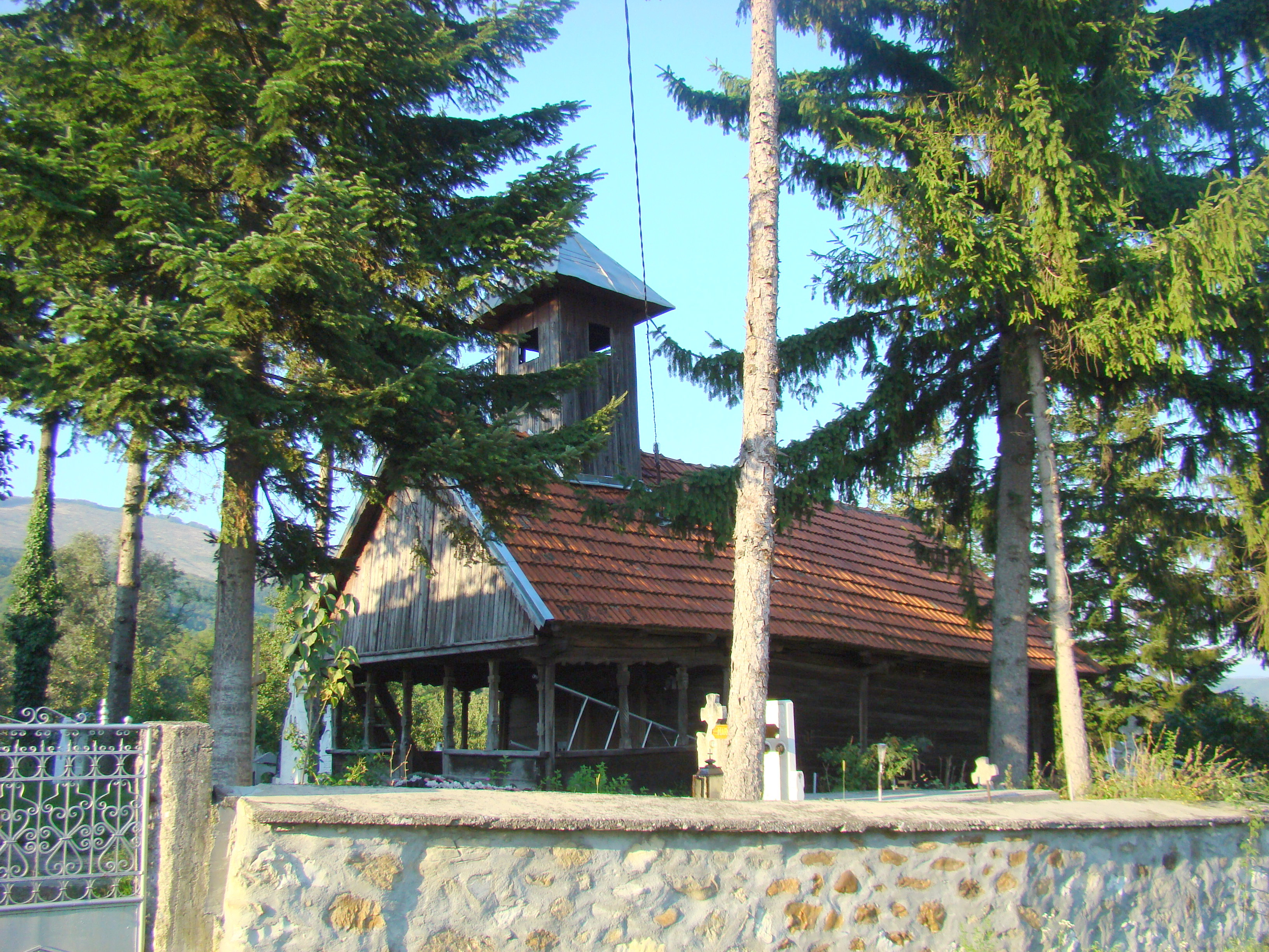 Wooden church in Pârvulești, Gorj county, Romania